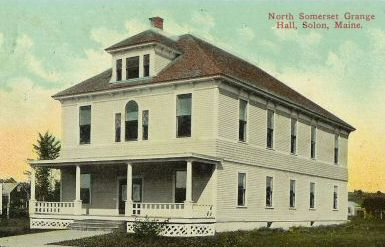 North Somerset Grange hall, Solon, Maine. Scanned from original postcard.